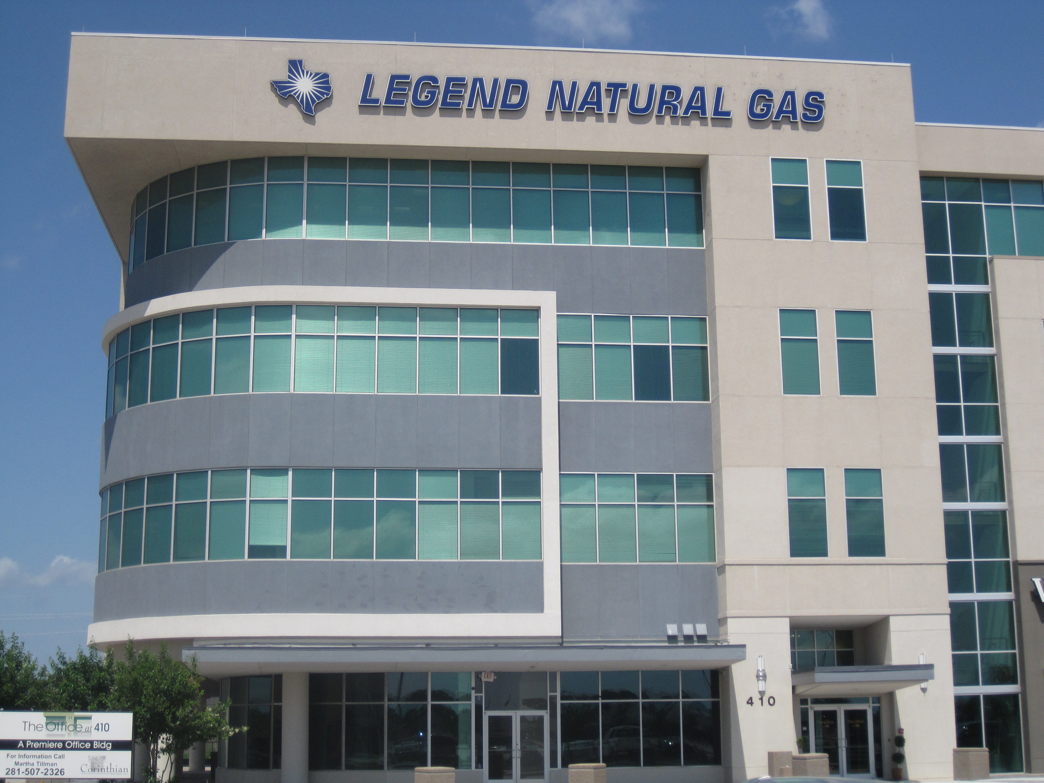 Headquarters of Legend Natural Gas, 410 W Grand Parkway S Katy, TX 77494